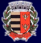 Brasão de Cedral - SP